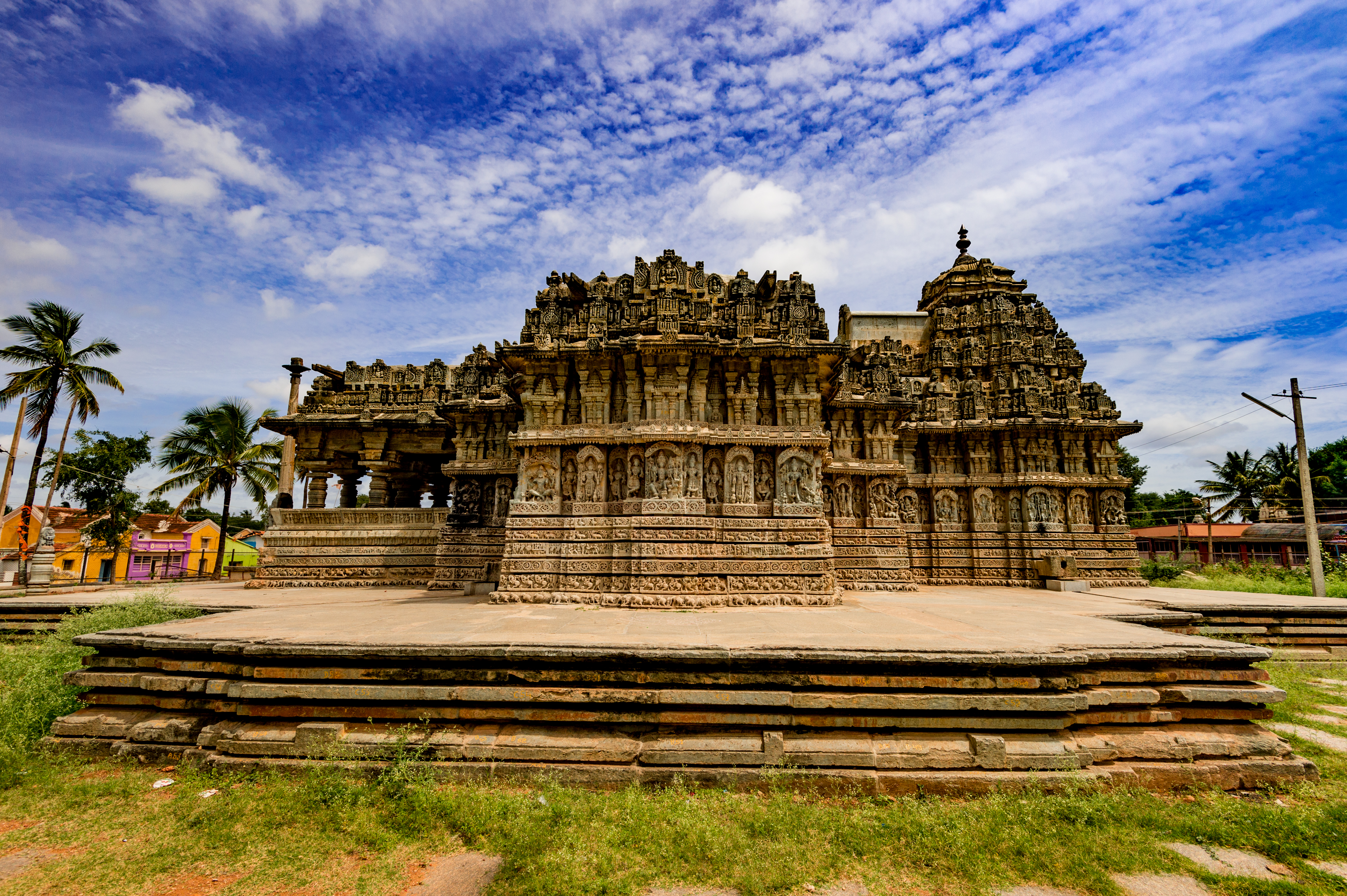 Hoysala Architechtures